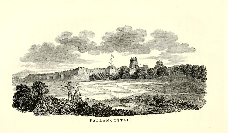 A view of Palayamkottai